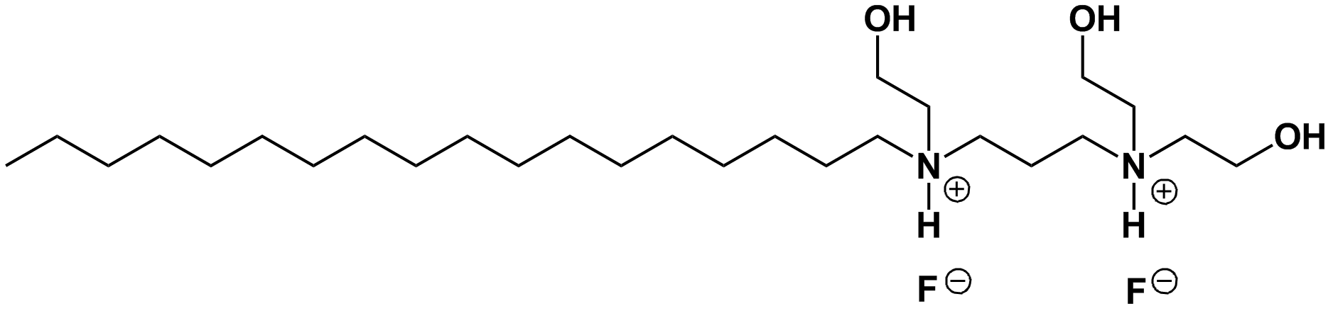 Olaflur, an organic fluoride derivative used in stomatological/dental care products to deliver fluoride for the teeth.